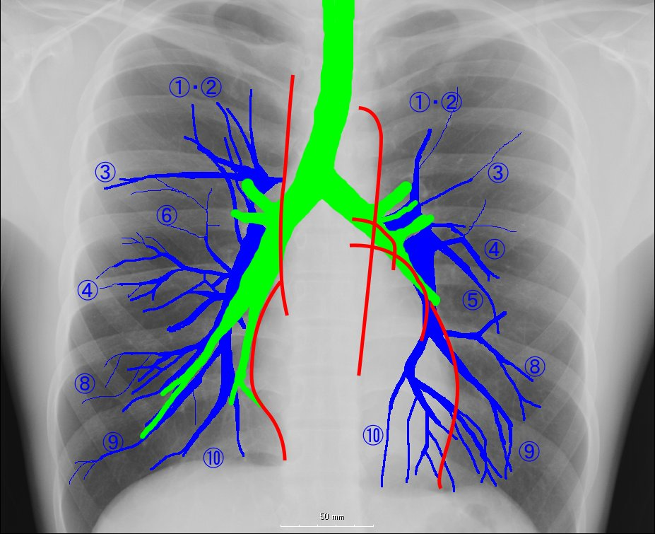 Painted schema on the chest.png image. Using GIMP2.2 for Windows.